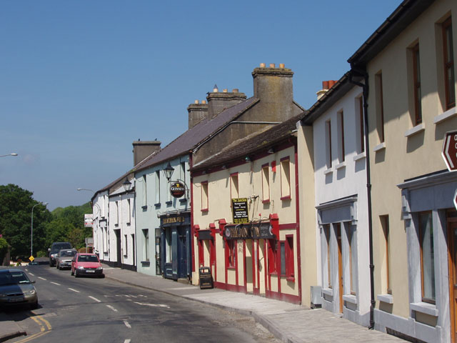 Killala street scene The Ballycastle road